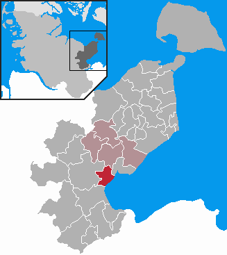 This map shows the area of the Gemeinde (municipality) Sierksdorf in the Kreis (district) Ostholstein, Schleswig-Holstein, Germany.